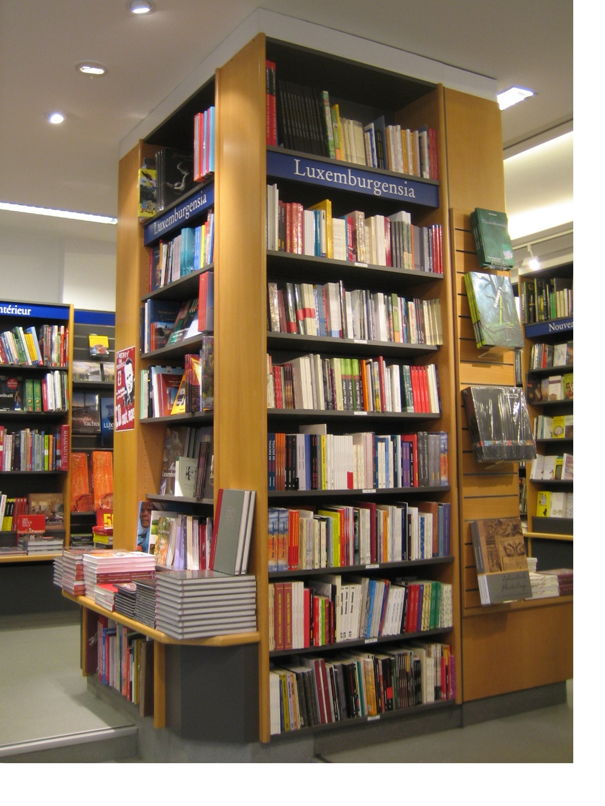 Bookshop-department with books from/on Luxembourg.